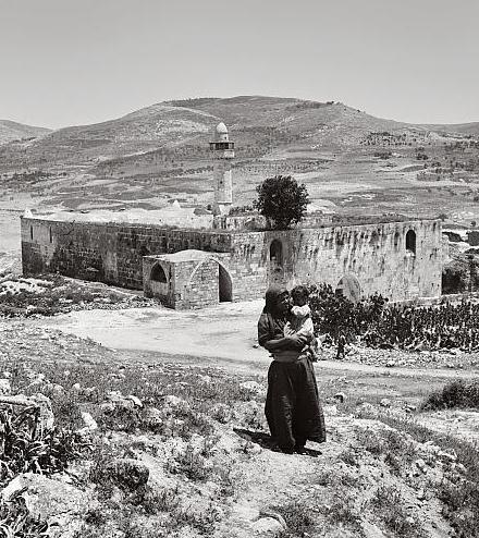 Nabi Yahya Mosque, the main mosque in the village of Sebastiya, near Nablus.